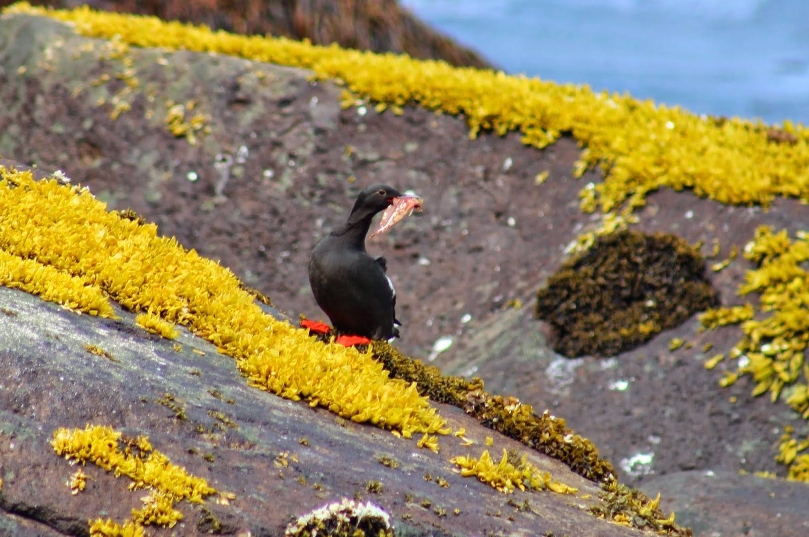 Pigeon Guillemot on Buldir Island by Katherine Robbins/USFWS.